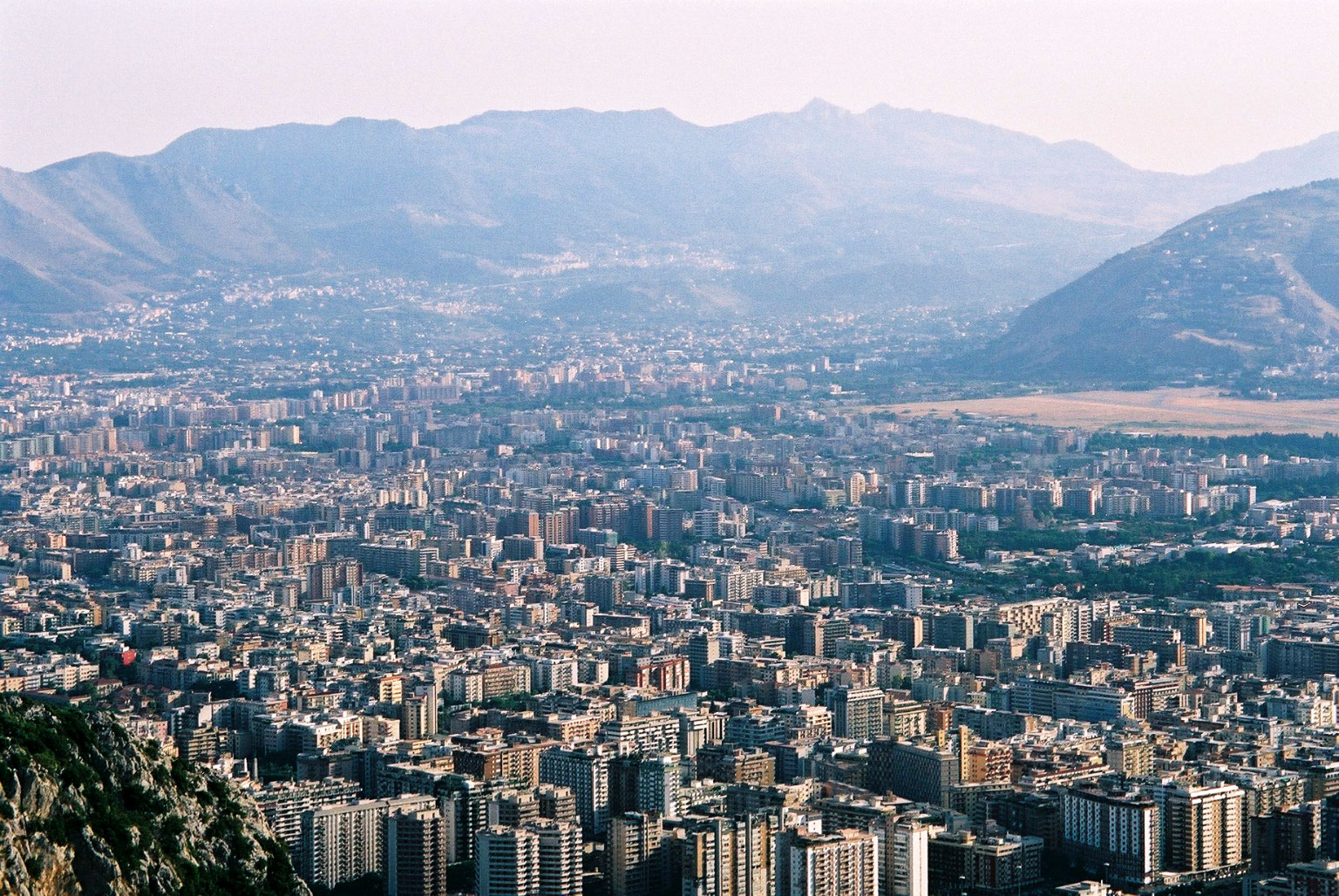 Palermo View to modern quarters from Monte Pellegrino